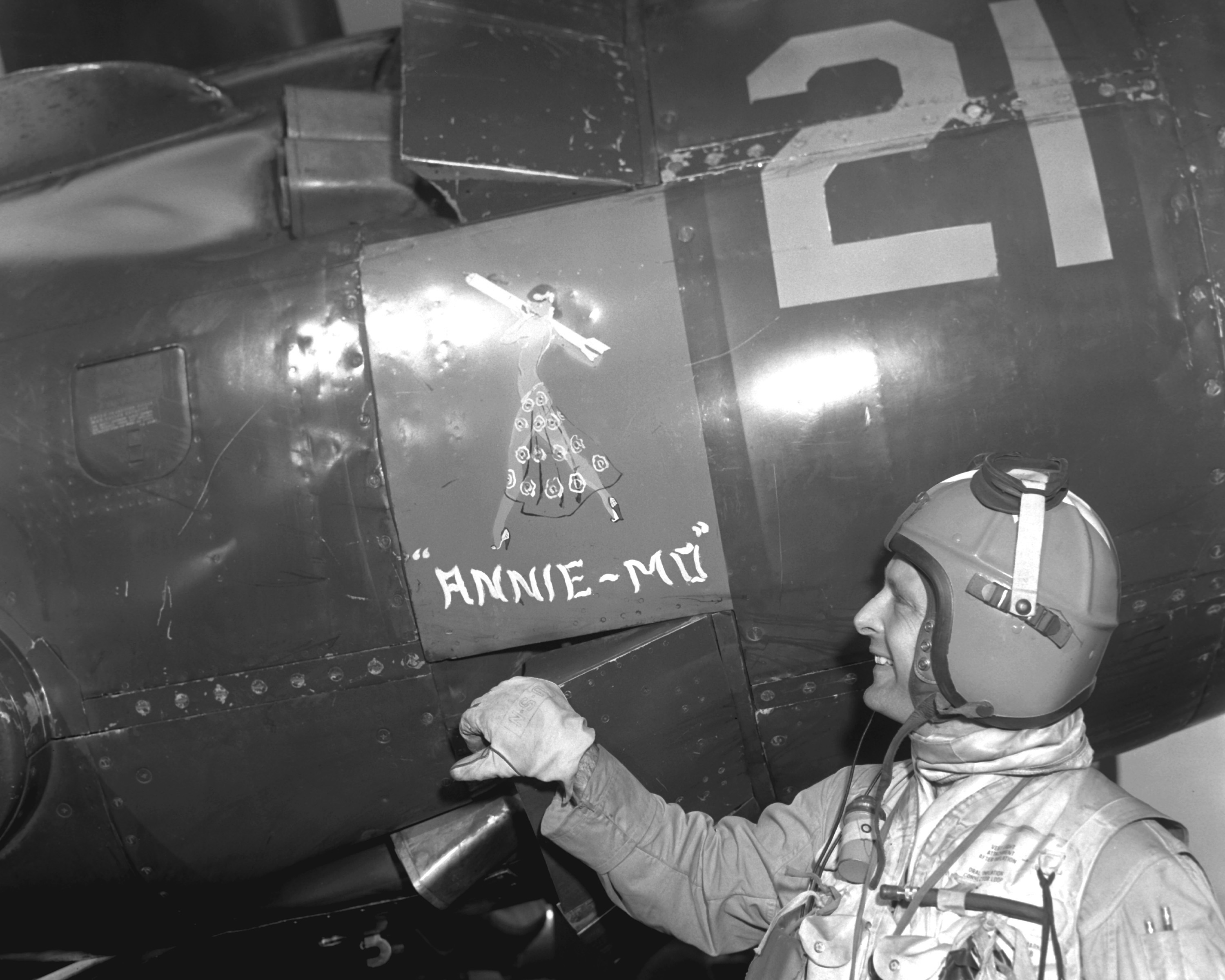 The only U.S. Navy Korean fighter ace Lt. Guy Bordelon smiles at the name plate on "Annie-Mo", his Vought F4U-5N Corsair fighter in which he shot down five enemy aircraft during the Korean War. Bordelon was assigned to composite squadron VC-3 Blue Nemesis, which was deployed to Korea on the aircraft carrier USS Princeton (CVA-37) from 24 January to 21 September to Korea as part of Carrier Air Group 15 (CVG-15). His aircraft, a Vought F4U-5N Corsair (BuNo 124453, NP-21), was left at an airbase in Korea and Bordelon was flown back to the Princeton. An U.S. Air Force Reserve pilot later crashed the plane in an accident.